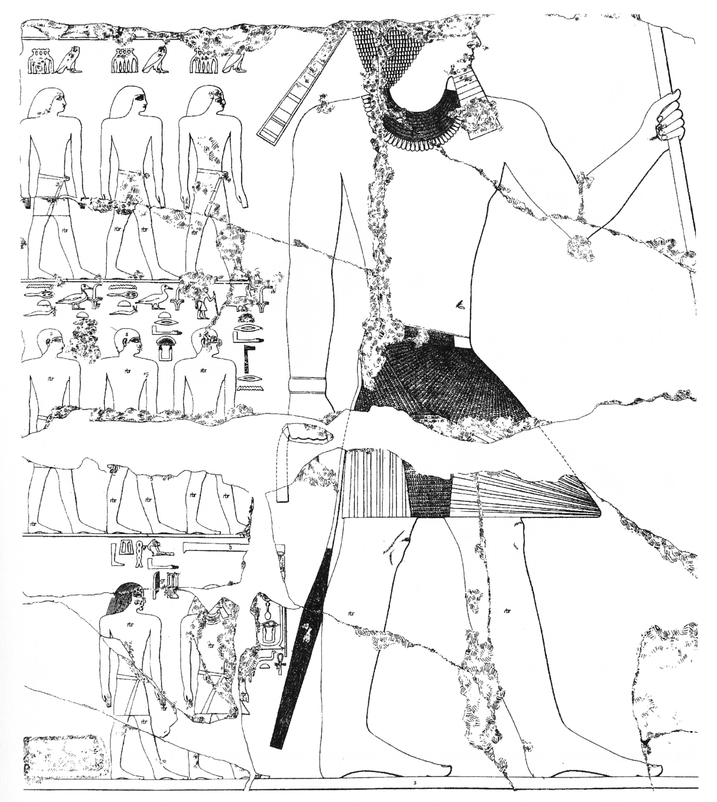 Fragment of a relief from the mortuary temple fo the pyramid of Sahura with subsequently revamped depiction of King Neferirkara